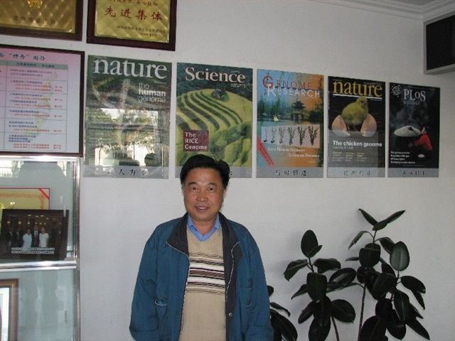 Photograph of Beijing Genomics Institute Director Yang Huanming (Henry Yang), October 2005